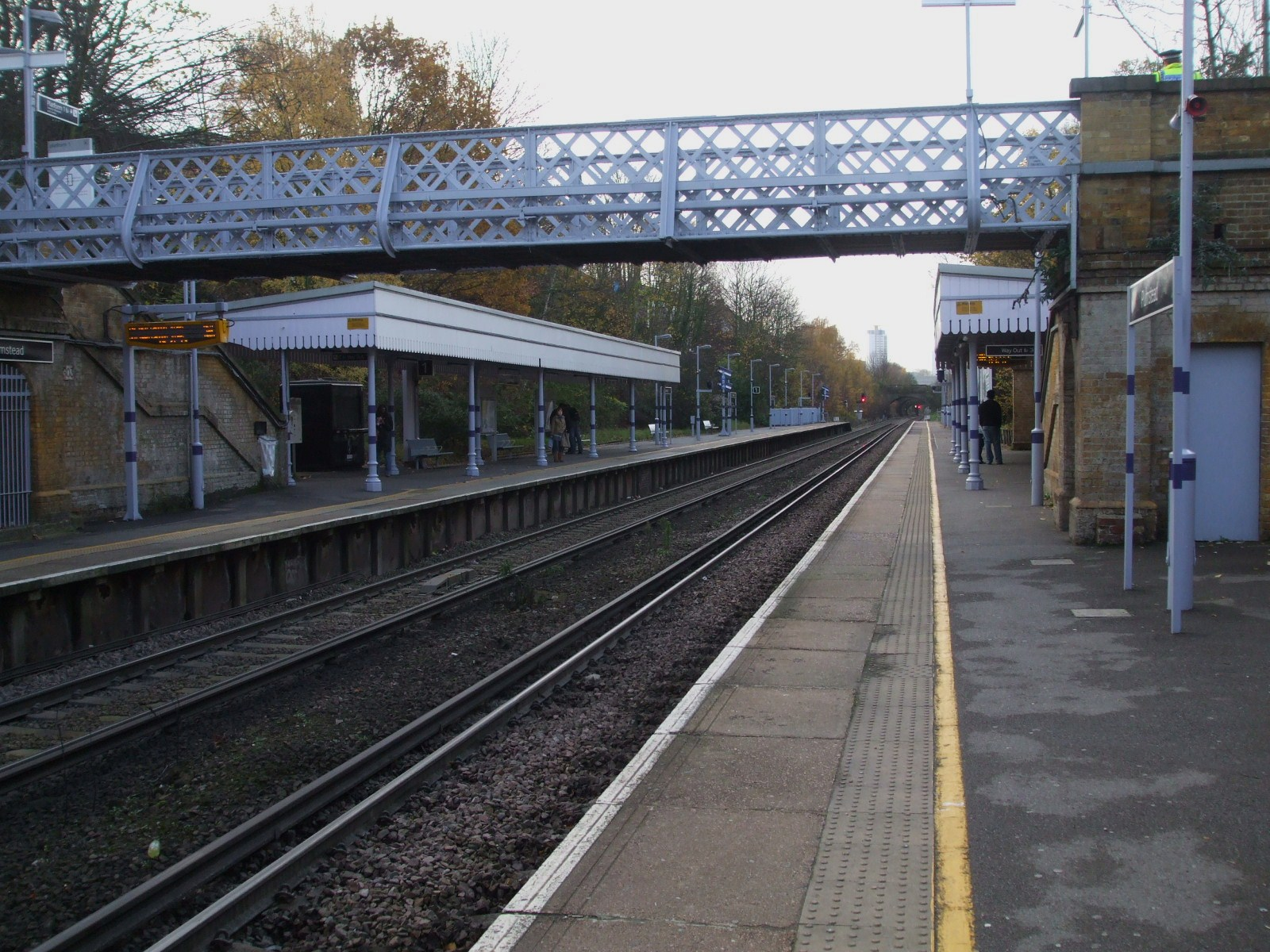 Plumstead station looking west